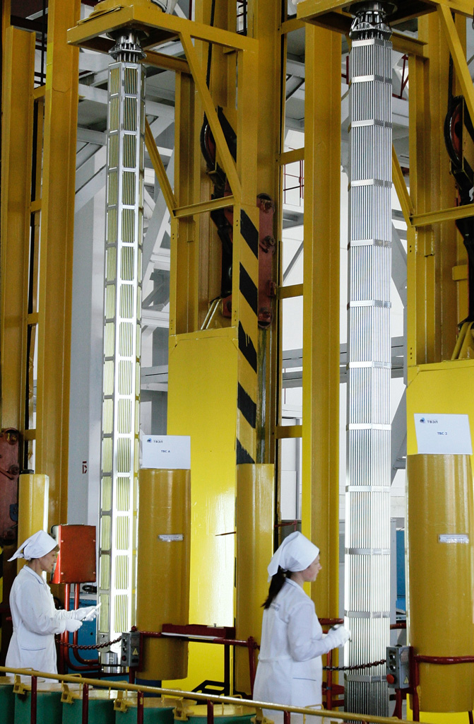 “The Novosibirsk Chemical Concentrate Plant”. A fuel assembly shop which produces fuel for NPPs, Novosibirsk Chemical Concentrate Plant.